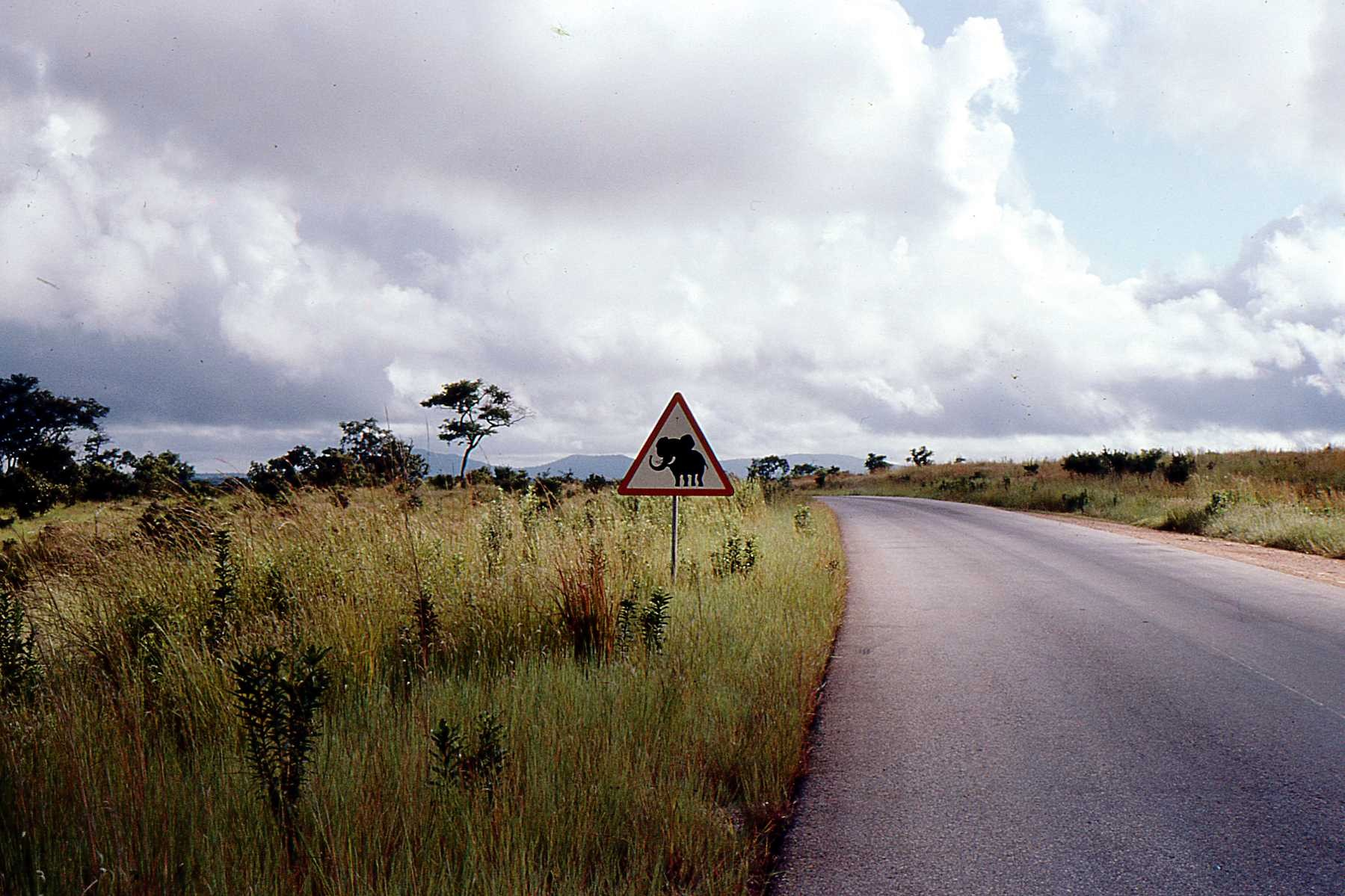 Road sign in Mikumi National Park